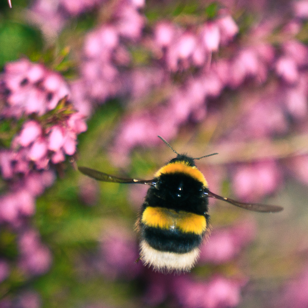 A bee in Ireland.